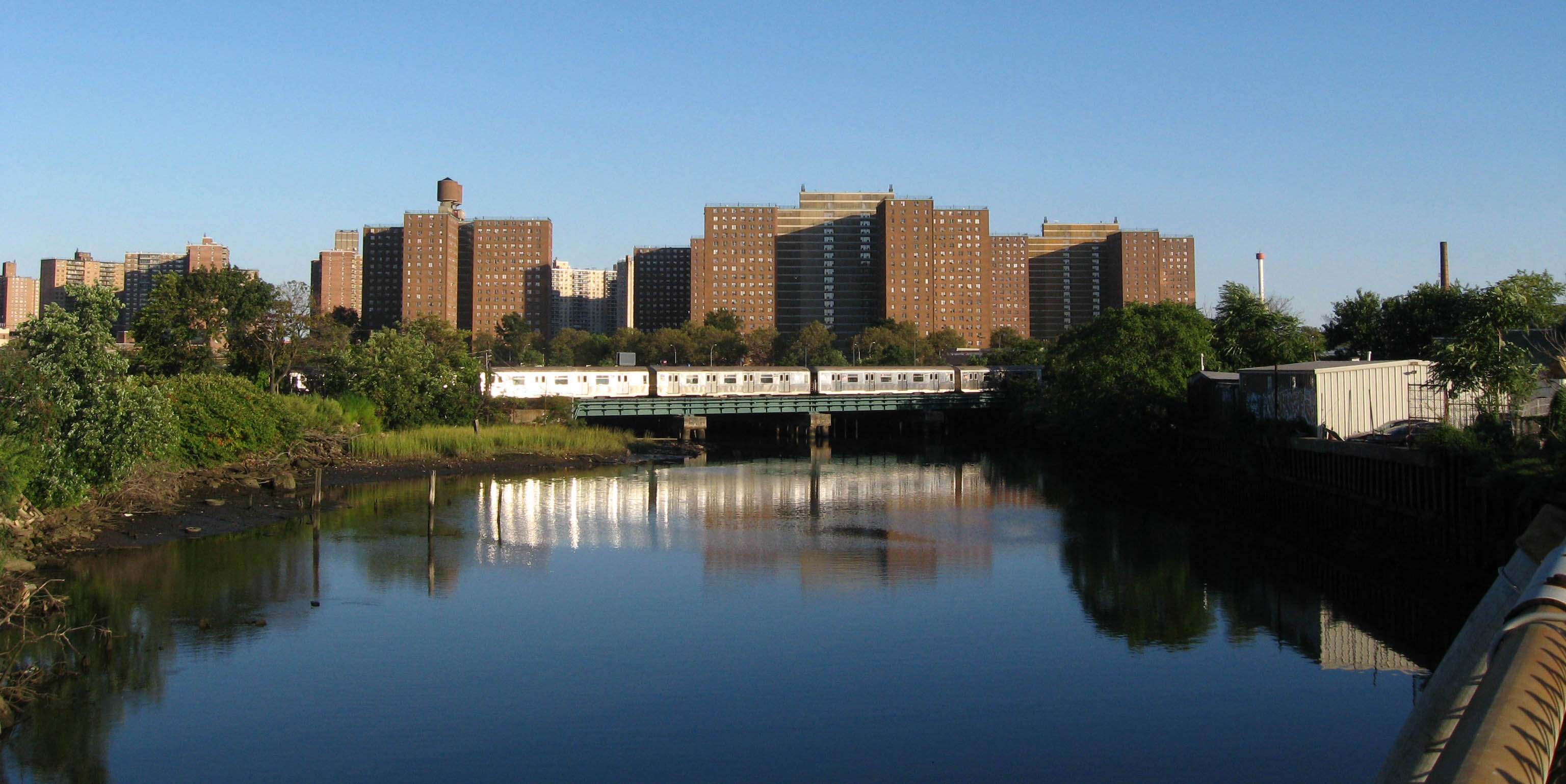 Looking southeast from Stillwell Avenue bridge at southbound BMT train crossing Coney Island Creek on a sunny afternoon